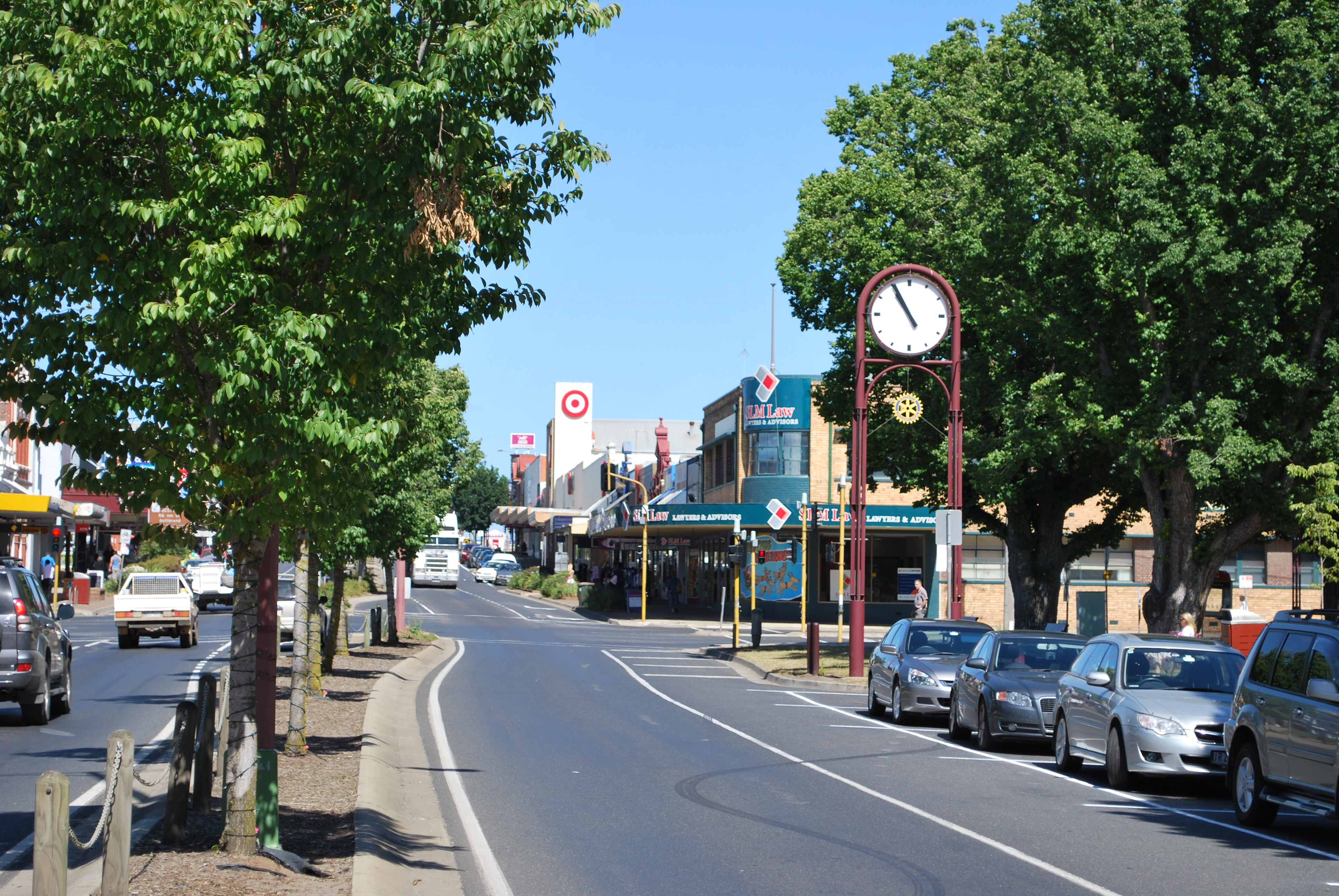 Murray St (Princes Highway), the main street of Colac, Victoria